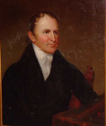 Portrait of Thomas Worthington, Governor of Ohio hangs in Governor's office, room 101 of Ohio Statehouse. Oil on Canvas, 30 X 25 inches.